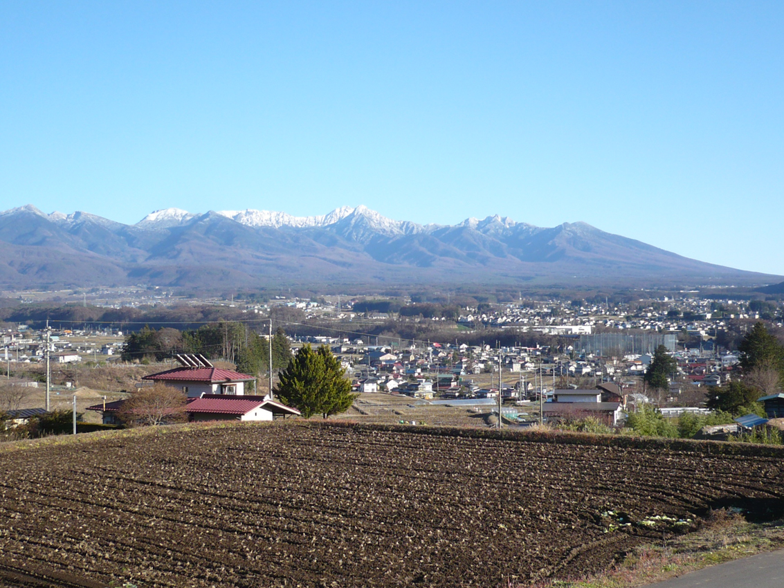 Yatugatkake as seen from the WNW. View from Nagano prefectural road 424. Shot at Yonezawa, Chino.